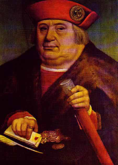 Franz von Taxis (16th century)